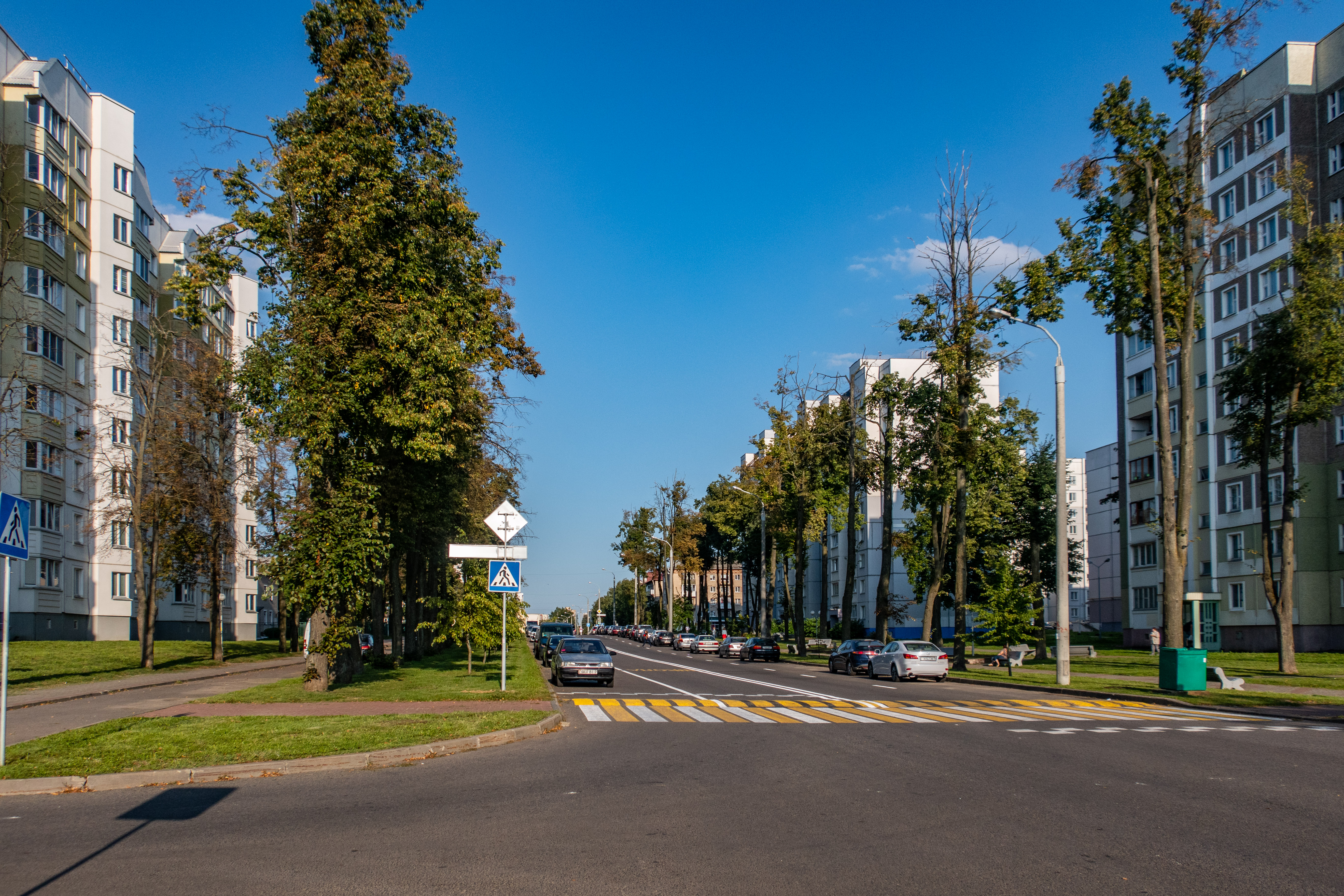 Kozyrava (Kozyrevo), former suburb of Minsk (Belarus). Soniečnaja street